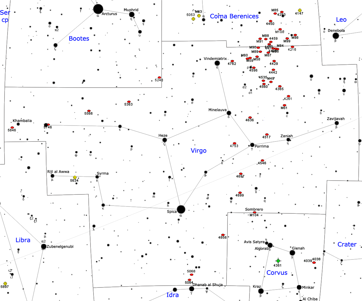 Map of Virgo